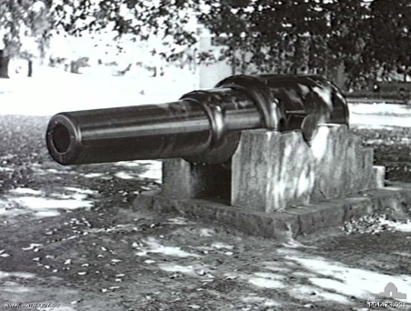 AWM caption : "BALLARAT, VIC. A 10 INCH MUZZLE LOADING RIFLED ARMSTRONG GUN NUMBERED 17 WHICH WAS MANUFACTURED AT THE ROYAL GUN FOUNDRY, WOOLWICH, ENGLAND IN 1869. THIS GUN FORMED PART OF THE MAIN ARMAMENT OF HMVS CERBERUS. IN 1884 DURING GUNNERY PRACTICE CRACKS WERE FOUND AROUND THE RIGHT HAND TRUNNION AND THE GUN WAS SENT TO A FOUNDRY IN BALLARAT FOR REPAIR. THE REPAIR WORK WAS BEYOND THE CAPACITY OF THE FOUNDRY AND THE GUN REMAINED IN BALLARAT. AFTER SOME YEARS ON DISPLAY IN A PARK IN BALLARAT IT WAS MOVED ABOUT 1986 TO HMAS CERBERUS."